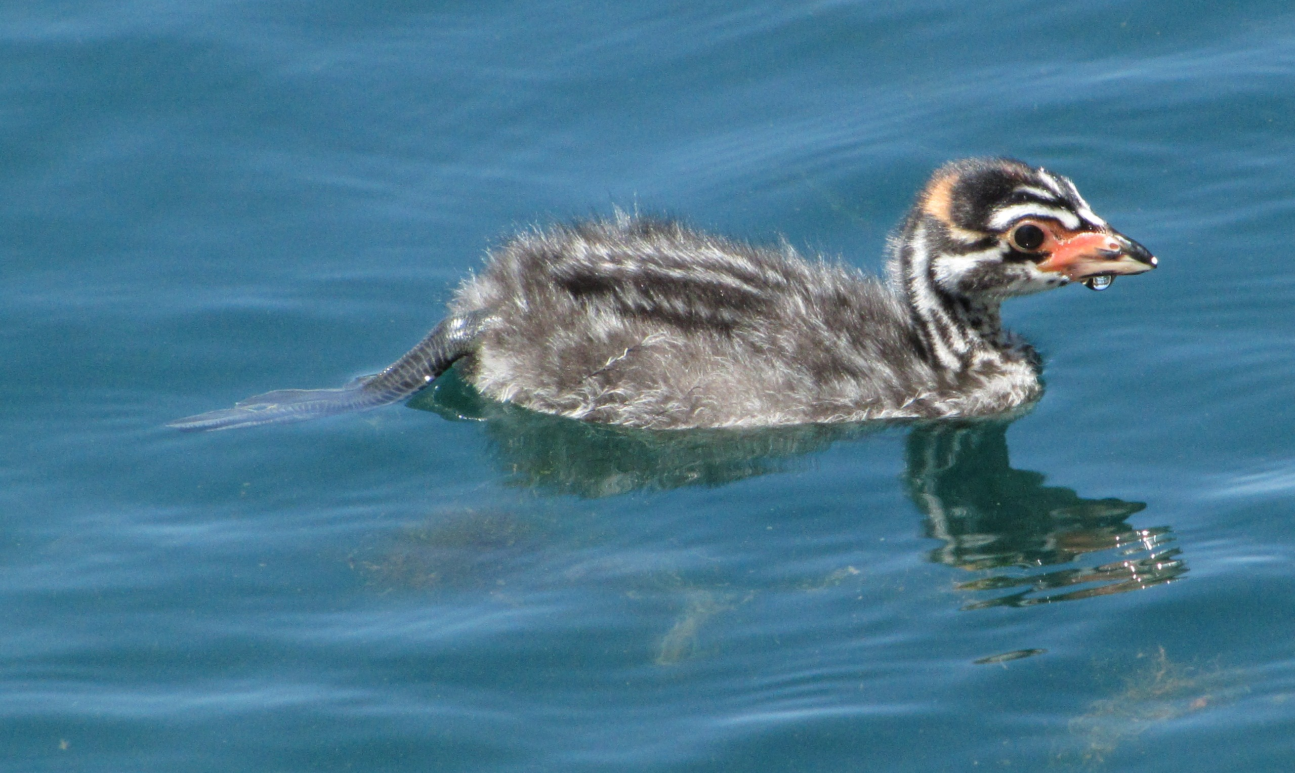 Pied-billed grebe chick (Podilymbus podiceps) Location: Laguna Lake, Fullerton, CA, USA